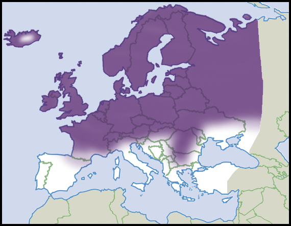 Nesovitrea hammonis (Strøm, 1765). Distribution in Europe, scientific state of knowledge of 2012. Source description in English. Light colour indicated rare occurrences or regions where the species could eventually be expected to occur. Dark colour indicated relatively reliable occurrences, as well as regions where the species was expected to occur, and where the species was not known to be extremely rare. Dark colour indications were not necessarily based on published records. Species summary in AnimalBase